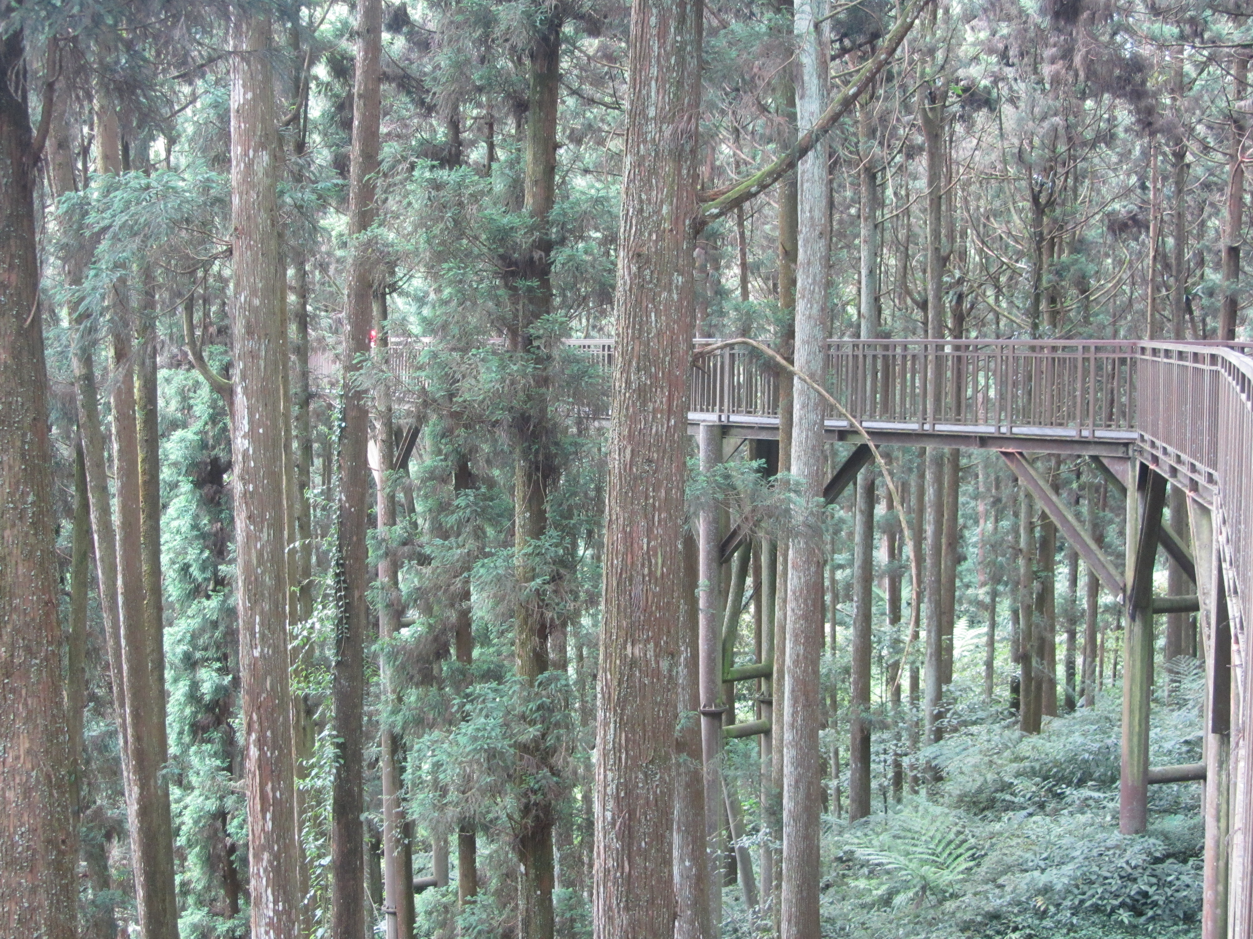 Xitou Sky Walk